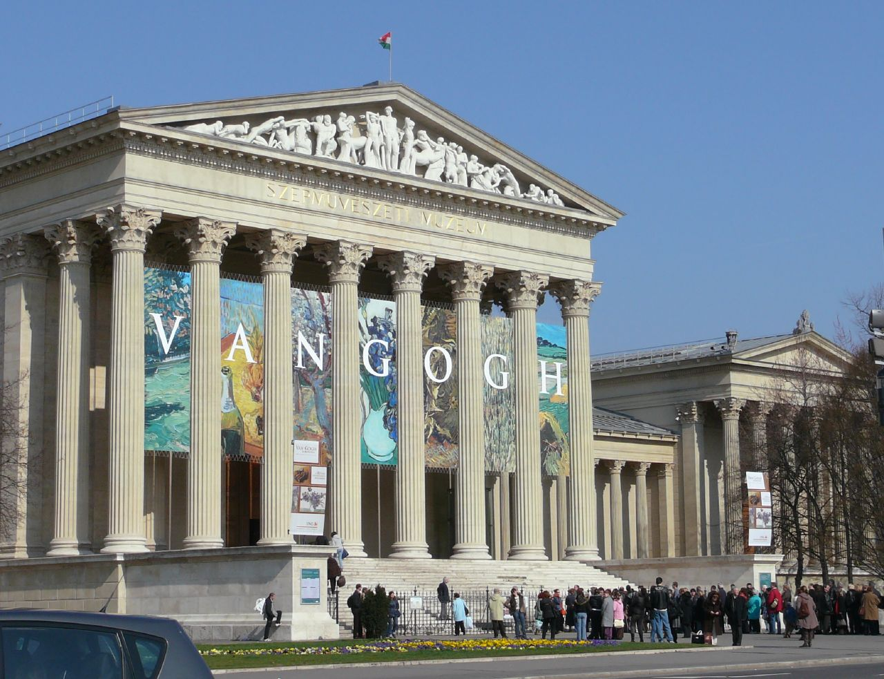 Museum of Fine Arts, Budapest